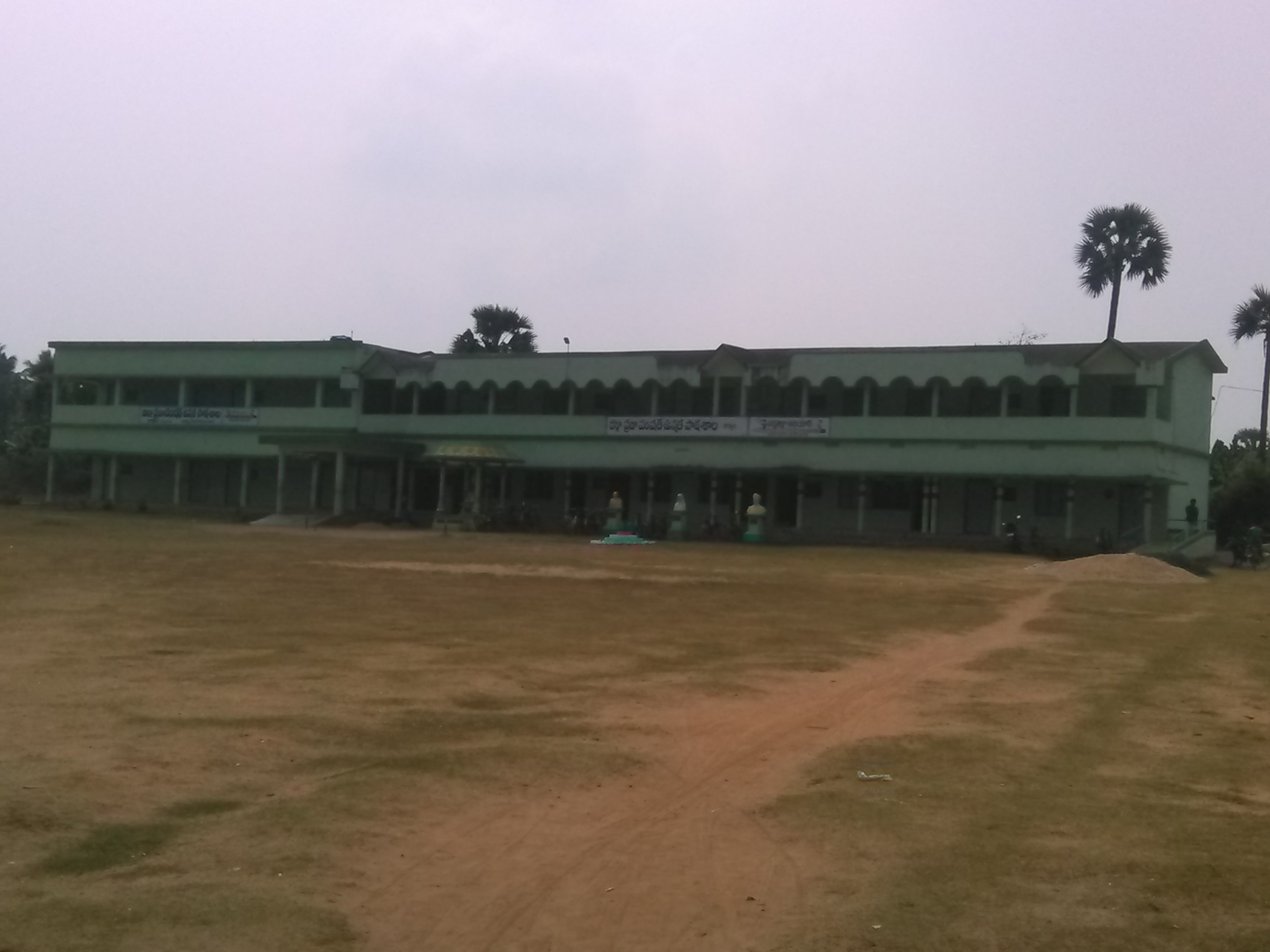 A.P Village Chikkala of Nidadavolu Mandal Highschool